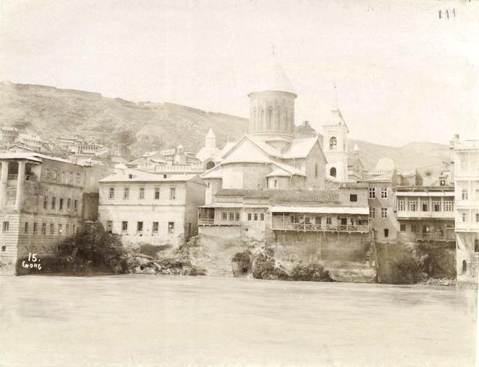 Sioni Cathedral. A wintage photo from the 1870s.